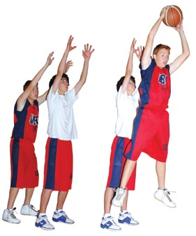 basketball